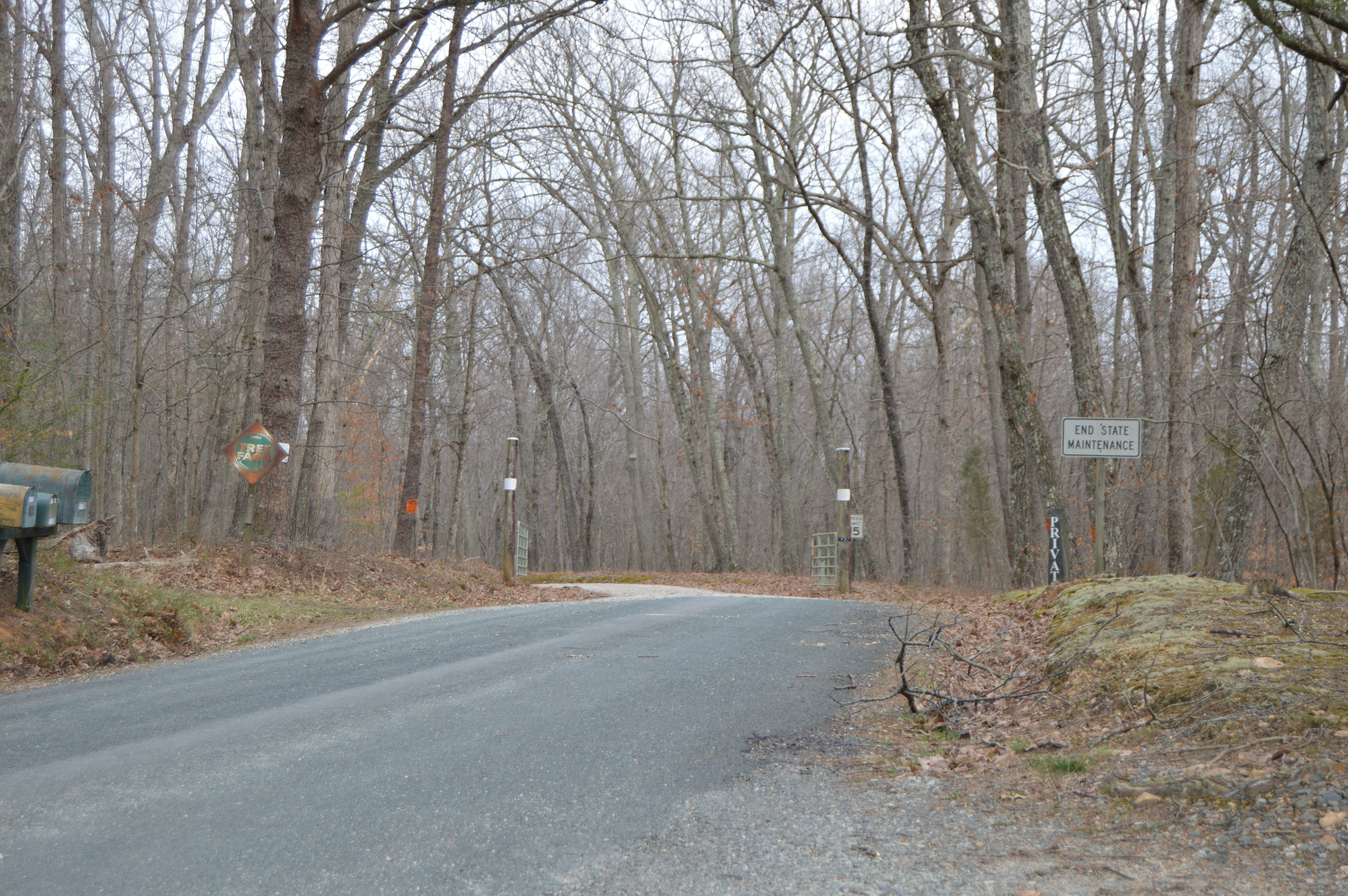 Driveway to the Glen Arvon property, located at the end of Bottom Road east of Bremo Bluff in Fluvanna County, Virginia, United States. The property is listed on the National Register of Historic Places.